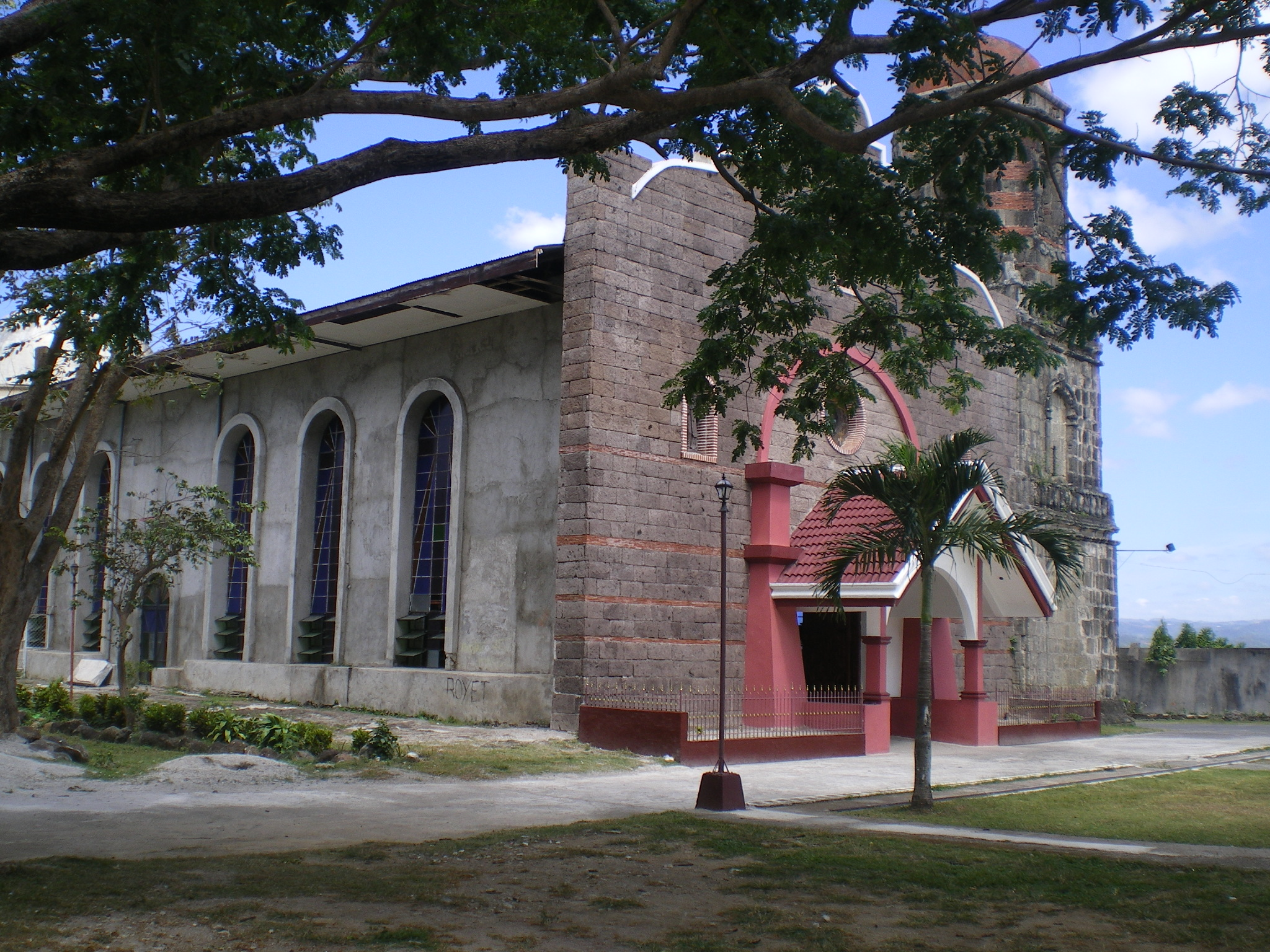 Mabitac Church